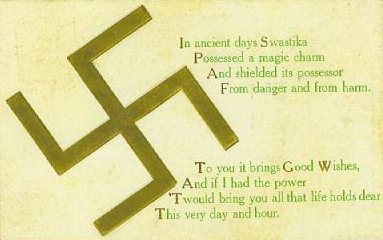 Postcard: Swastika, postmarked 1910 Description: "postcard with ancient swastika symbol mailed June 1, 1910 from Rochester, New York to J B Merrow, Fair Haven, Connecticut"